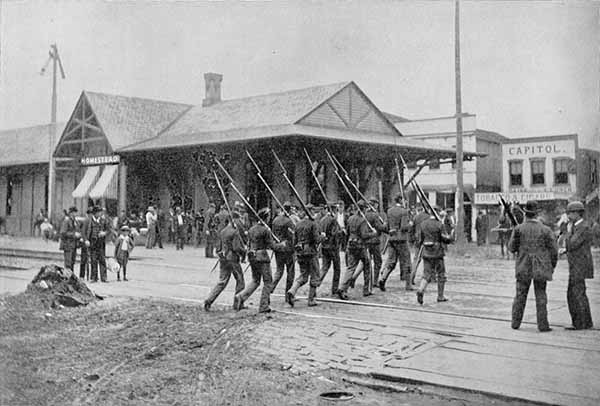 Pennsylvania National Guard patrol company "D" of the 15th, passing the railroad station to disperse groups of strikers.